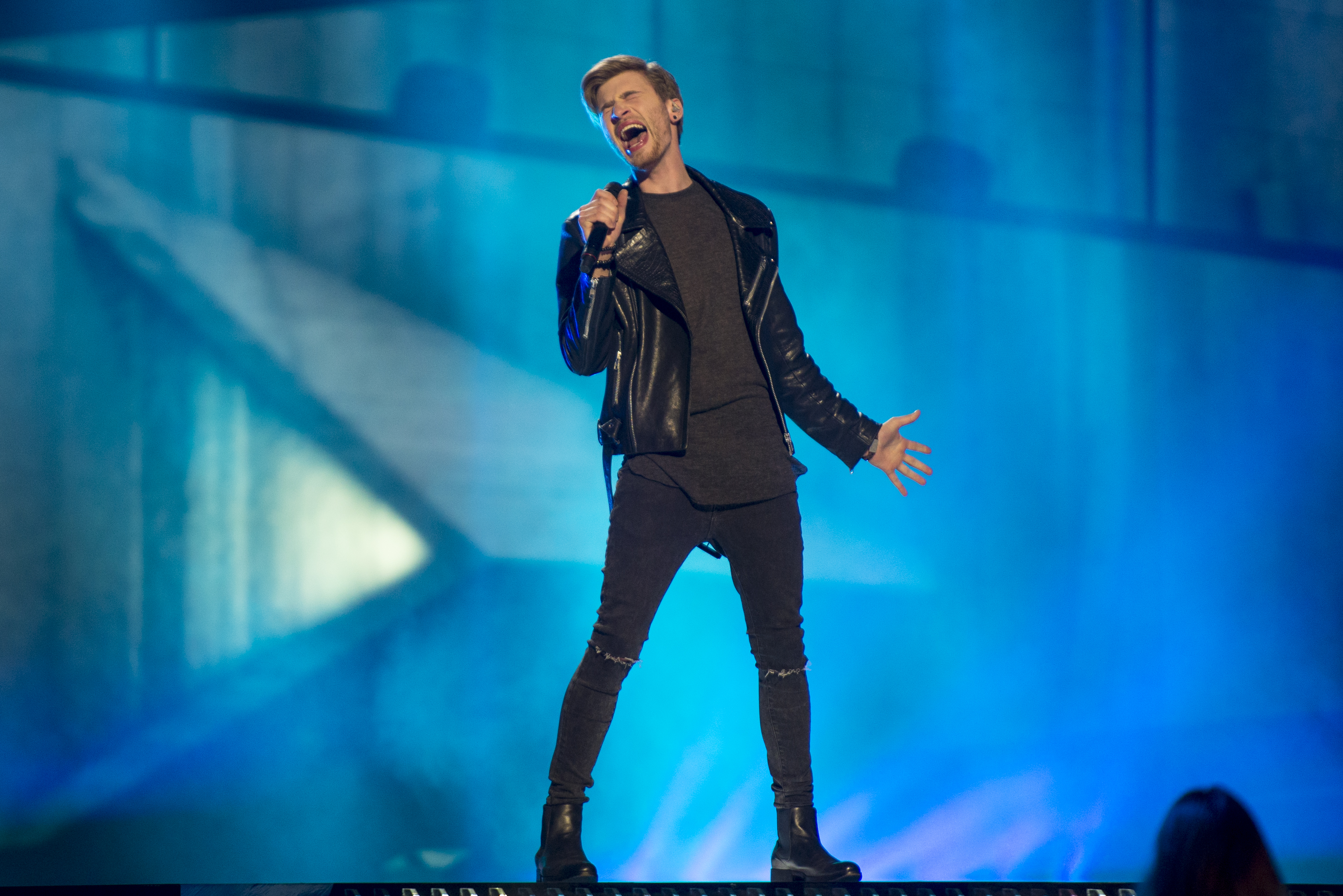 Justs representing Latvia with the song "Heartbeat" during a rehearsal before the second semi final of the Eurovision Song Contest 2016 in Stockholm. (Help translate this text)